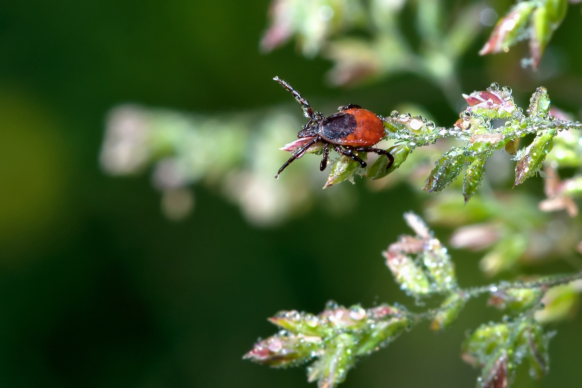 Ixodes ricinus adult female waiting for a victim on a grass